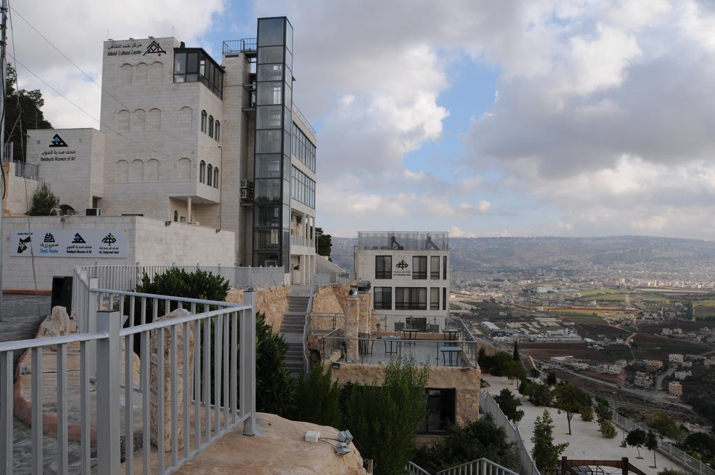 Jalaad Cultural Center